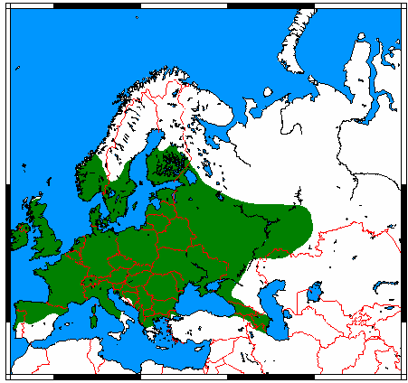 Range map for Brown long-eared bat (Plecotus auritus), made by me with help of Map depending on the range map at IUCN red list.